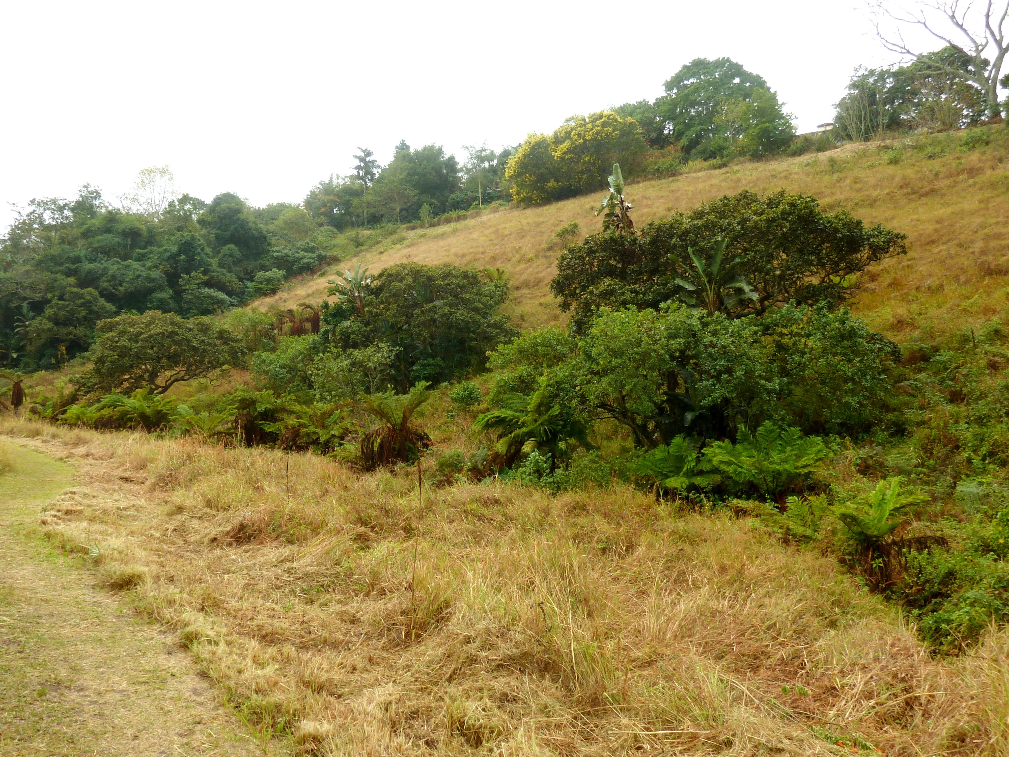 Stream verge vegetation in the Springside Nature Reserve in Hillcrest, KwaZulu-Natal